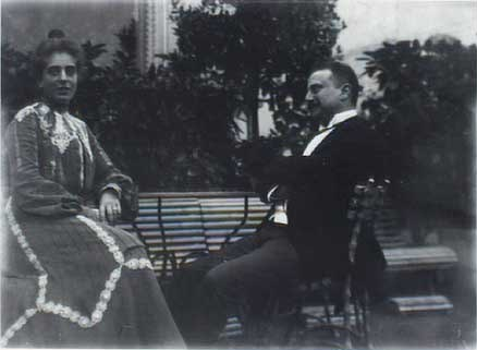 Danish businessman, director of Burmeister & Wain, Martin Dessau with his wife Ellen Margrethe Dessau, née Salomonsen (1881-1916) in the garden of their villa Eltham in Hellerup, Denmark.